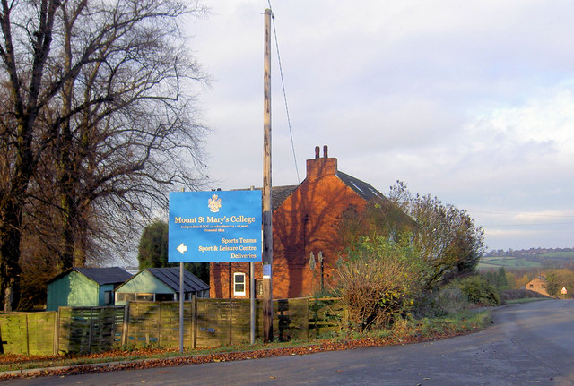 Entrance to Mount St Mary's College Spinkhill. Mount St Mary's College is a private (fee paying) English coeducational boarding school situated at Spinkhill, Derbyshire, near Sheffield, England. It is known colloquially as "The Mount". It was founded in its current form in 1842 by Fr Randal Lythgoe, the Provincial Superior of the Society of Jesus, a Roman Catholic religious order commonly known as the Jesuits.